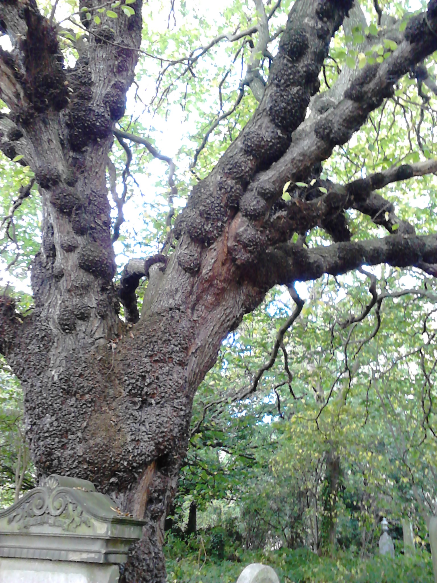 Ulmus glabra. Burrs or burls on trunk and branches. Dalry Cemetery, Edinburgh